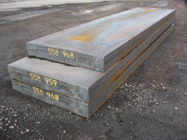 Stack of slabs at the Florange steelshop (France, Moselle)